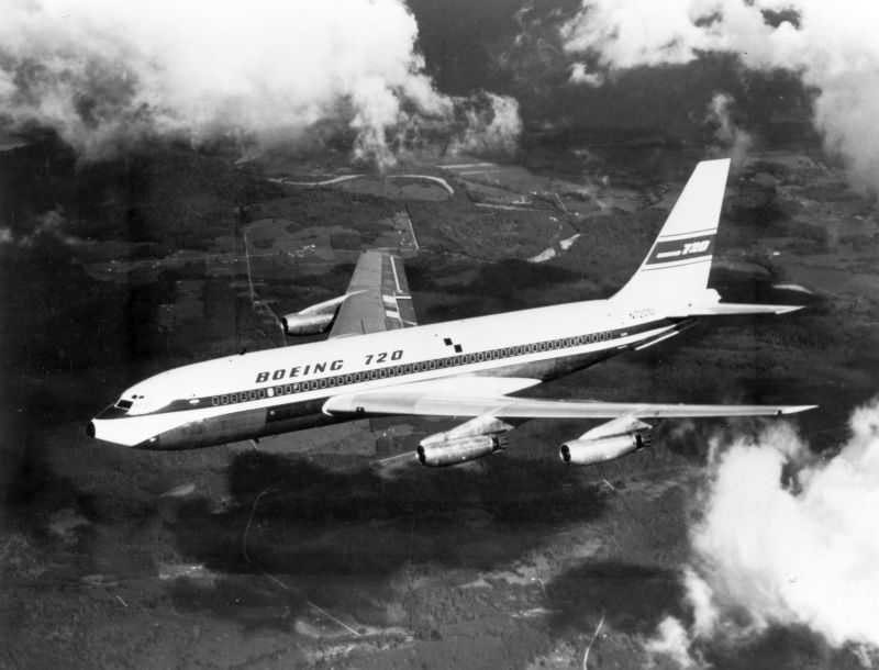 Please tag this photo so information can be saved. .Note: This material may be protected by Copyright Law (Title 17 U.S.C.)--Repository: San Diego Air and Space Museum